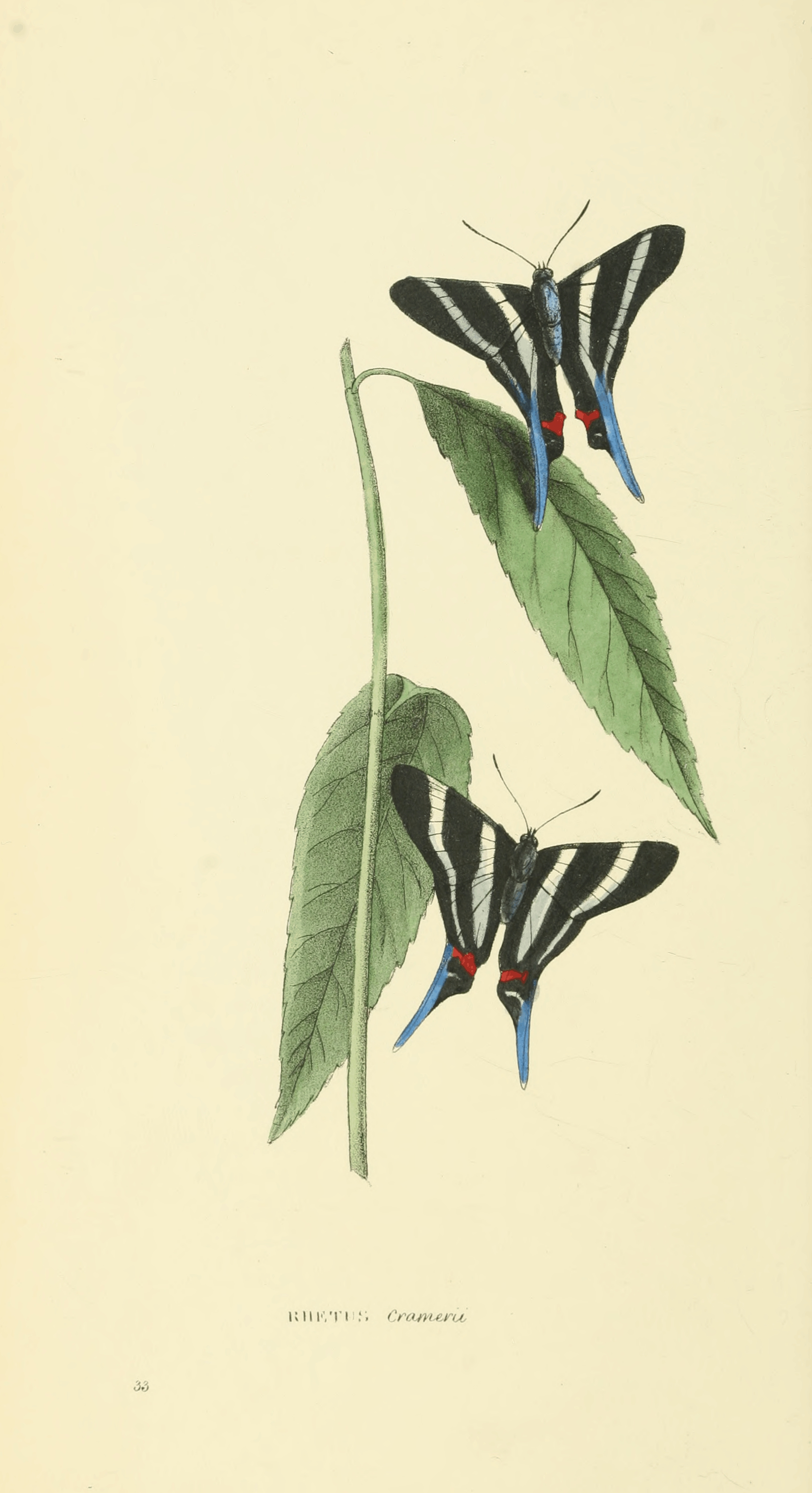 Plate from Zoological illustrations, Volume 1, 2nd series. Rhetus Cramerii = Papilio Rhetus Cramer. Accepted as Rhetus arcius arciusarcius